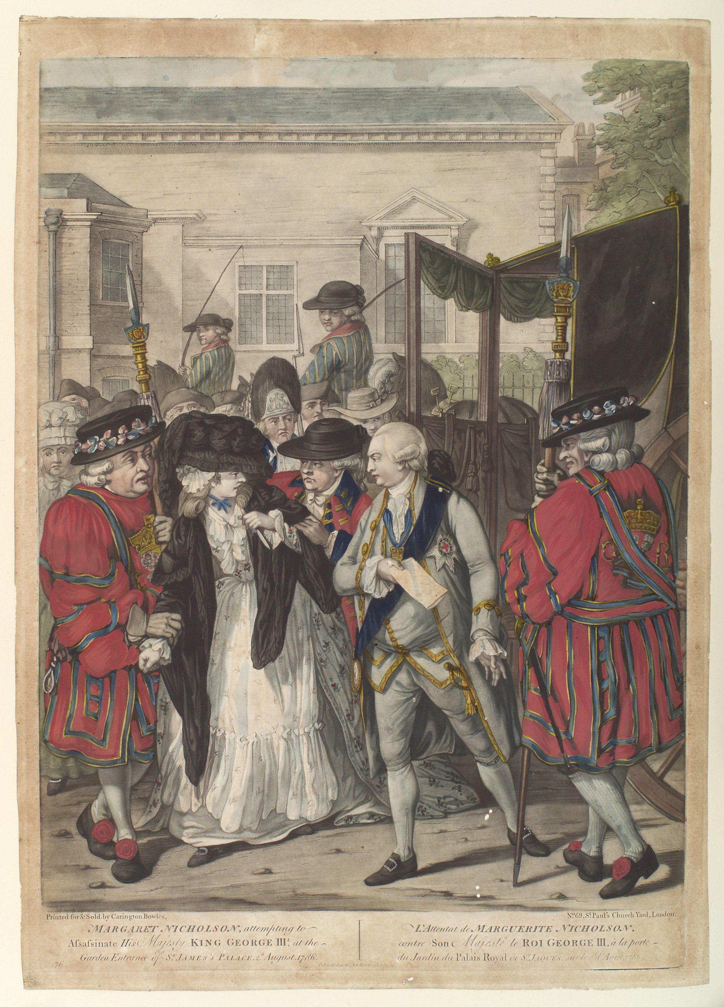 Margaret Nicholson attempting to assassinate his Majesty King George III' (Margaret Nicholson; King George III), by Carington Bowles (died 1793), published 1786. All images in this batch have been confirmed as author died before 1939 according to the official death date listed by the NPG.